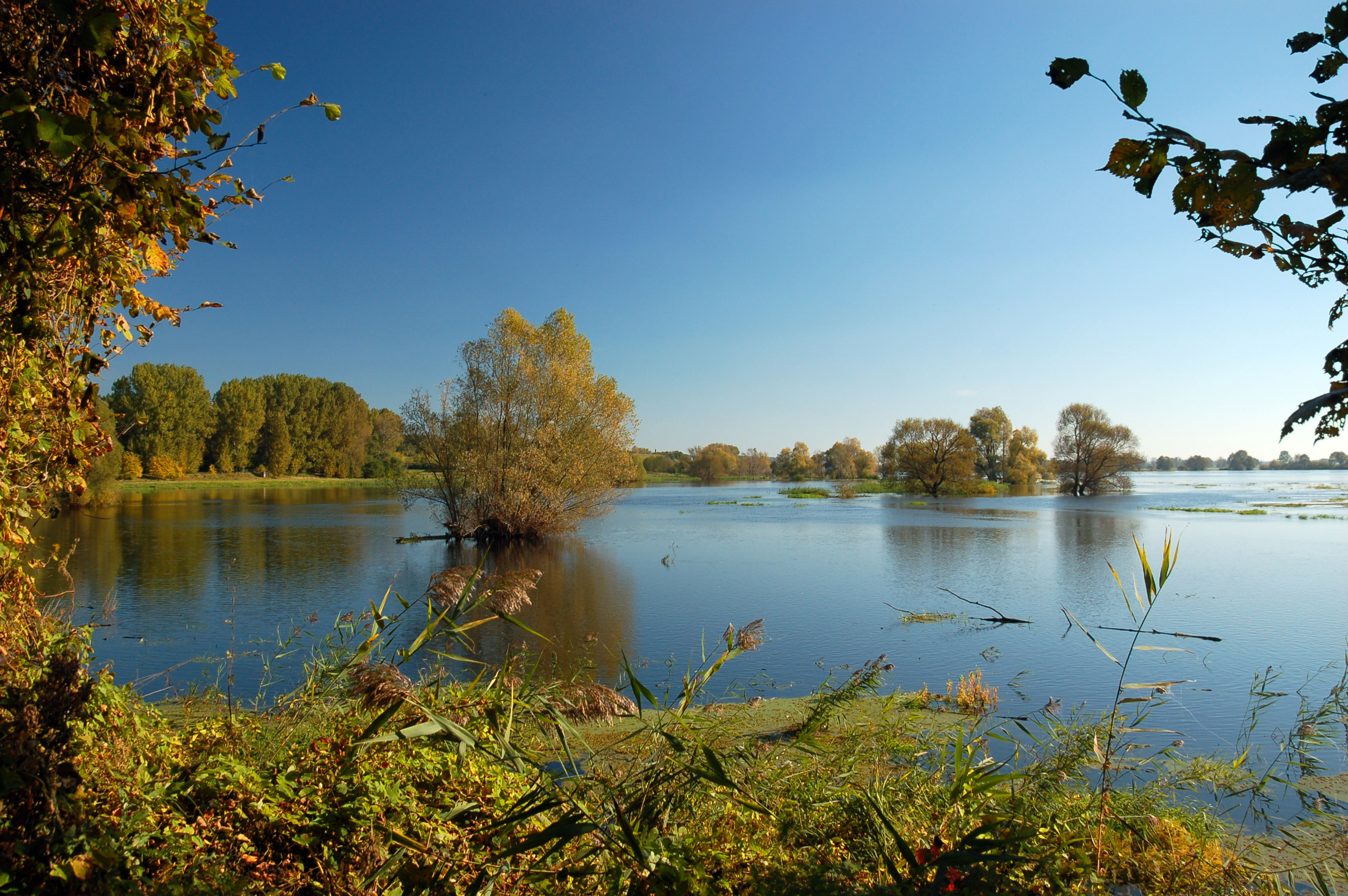 Oderbruch, near Siekierki in Poland